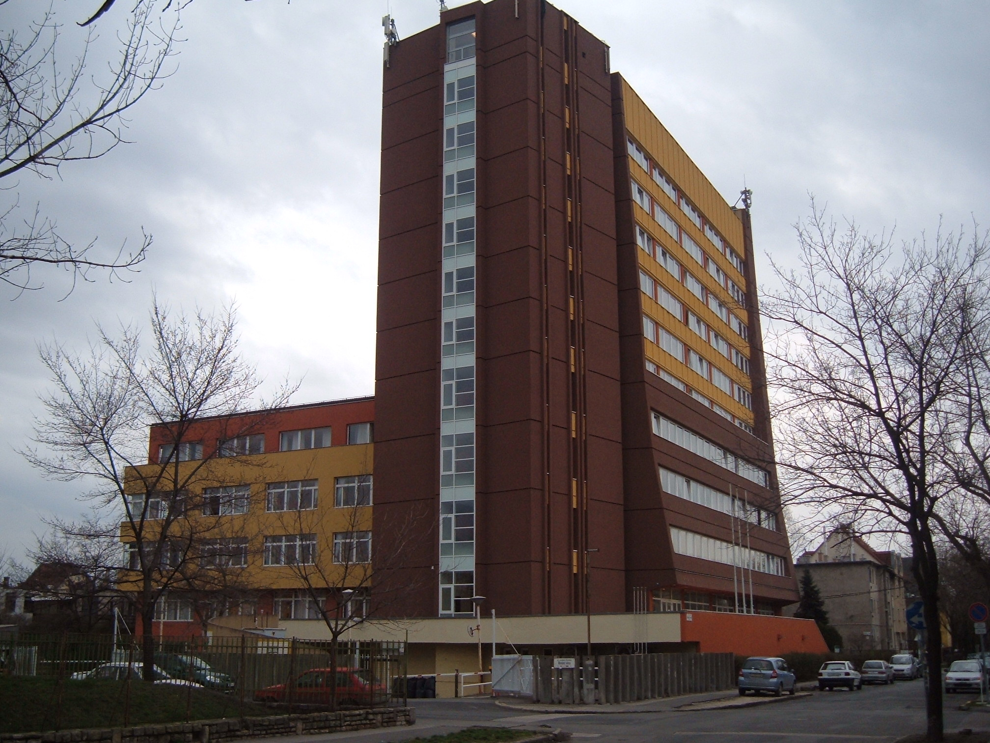 Office building, Budapest, Szugló utca. Architect: István Szabó and Zoltán Jakab, 1968-1975